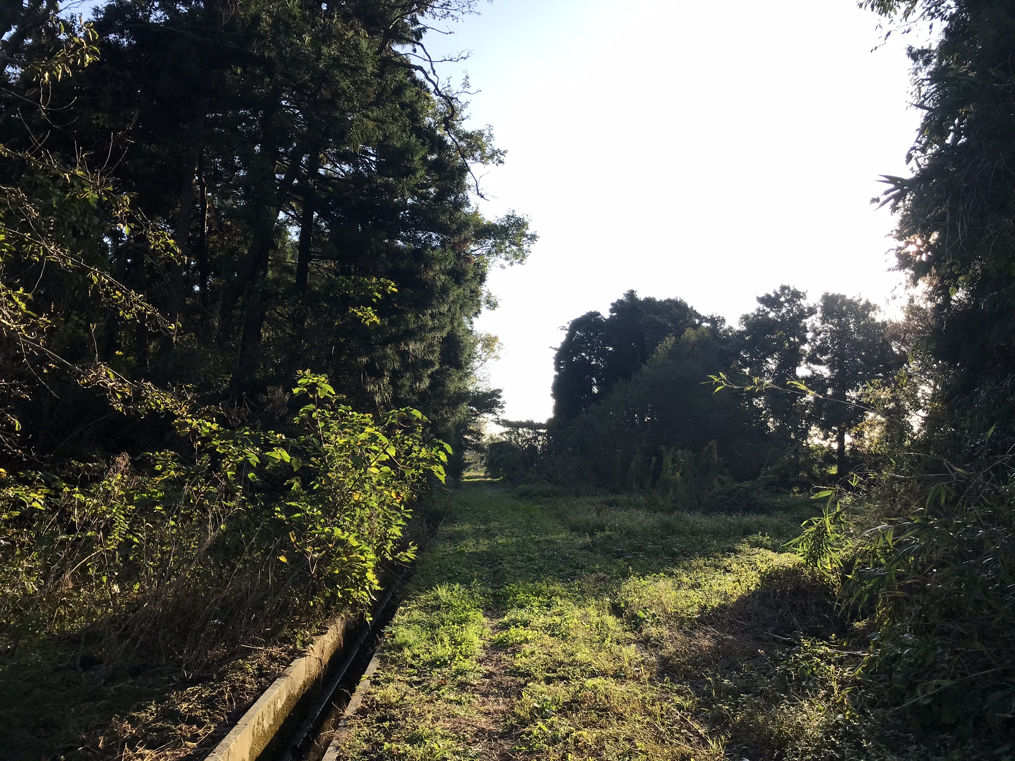 Footpath in the Yokokoshi Sagi no Mori (Heron Forest of Yokokoshi) in Toyama City, Toyama Prefecture, Japan